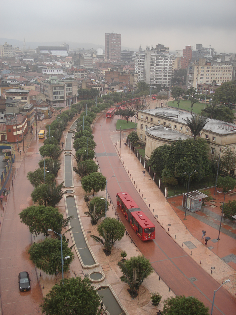 "Eje Ambiental" on Bogota Downtown, Colombia